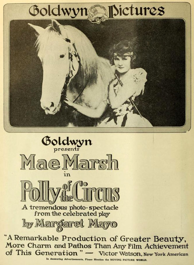 Advertisement in Moving Picture World for the American drama film Polly of the Circus (1917) with Mae Marsh.